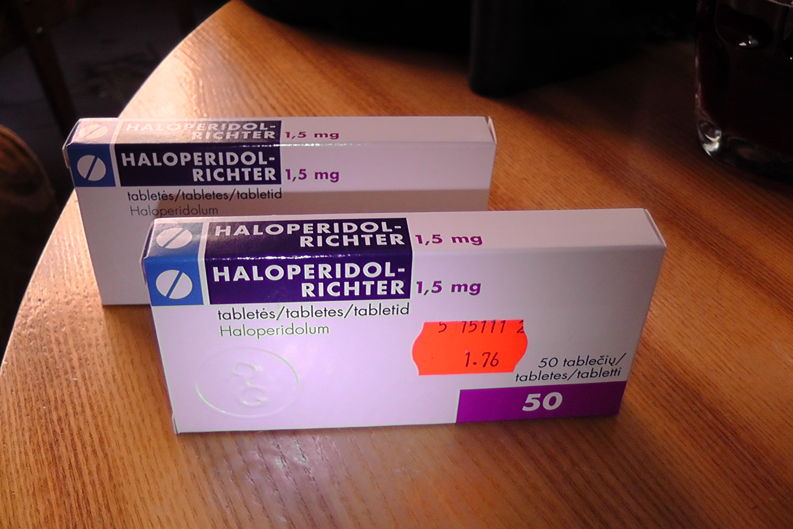 Blister pack of kaloperidol (1,5mg)